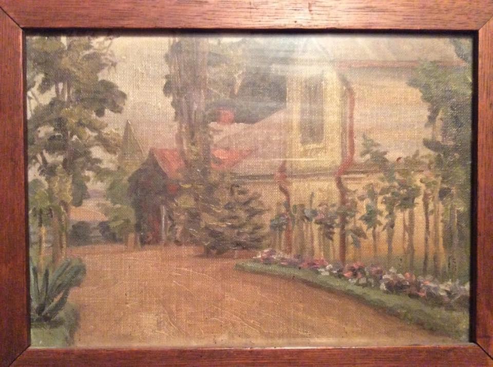 Plemborgo Dvaras, oil on canvas painting by Antanas Zmuidzinavicius, circa 1900.